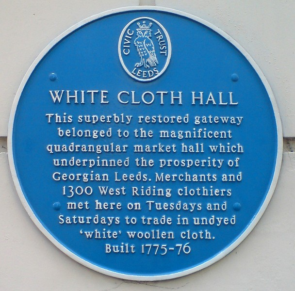 Blue Plaque, White Cloth Hall, Crown Street, Leeds "This superbly restored gateway belonged to the magnificent quadrangular market hall which underpinned the prosperity of Georgian Leeds. Merchants and 1300 West Riding clothiers met here on Tuesdays and Saturdays to trade in undyed 'white' woollen cloth. Built 1775-76" See also 1407054